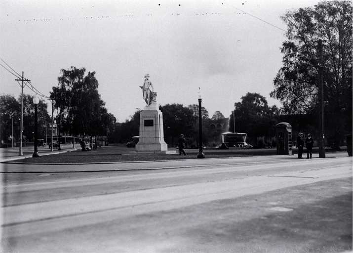 Victoria Square from Colombo Street, with the Captain Cook statue, sculptured by Trethewey in 1932, in the foreground. The Street on the left is Victoria Street, which in those days still went through Victoria Square.